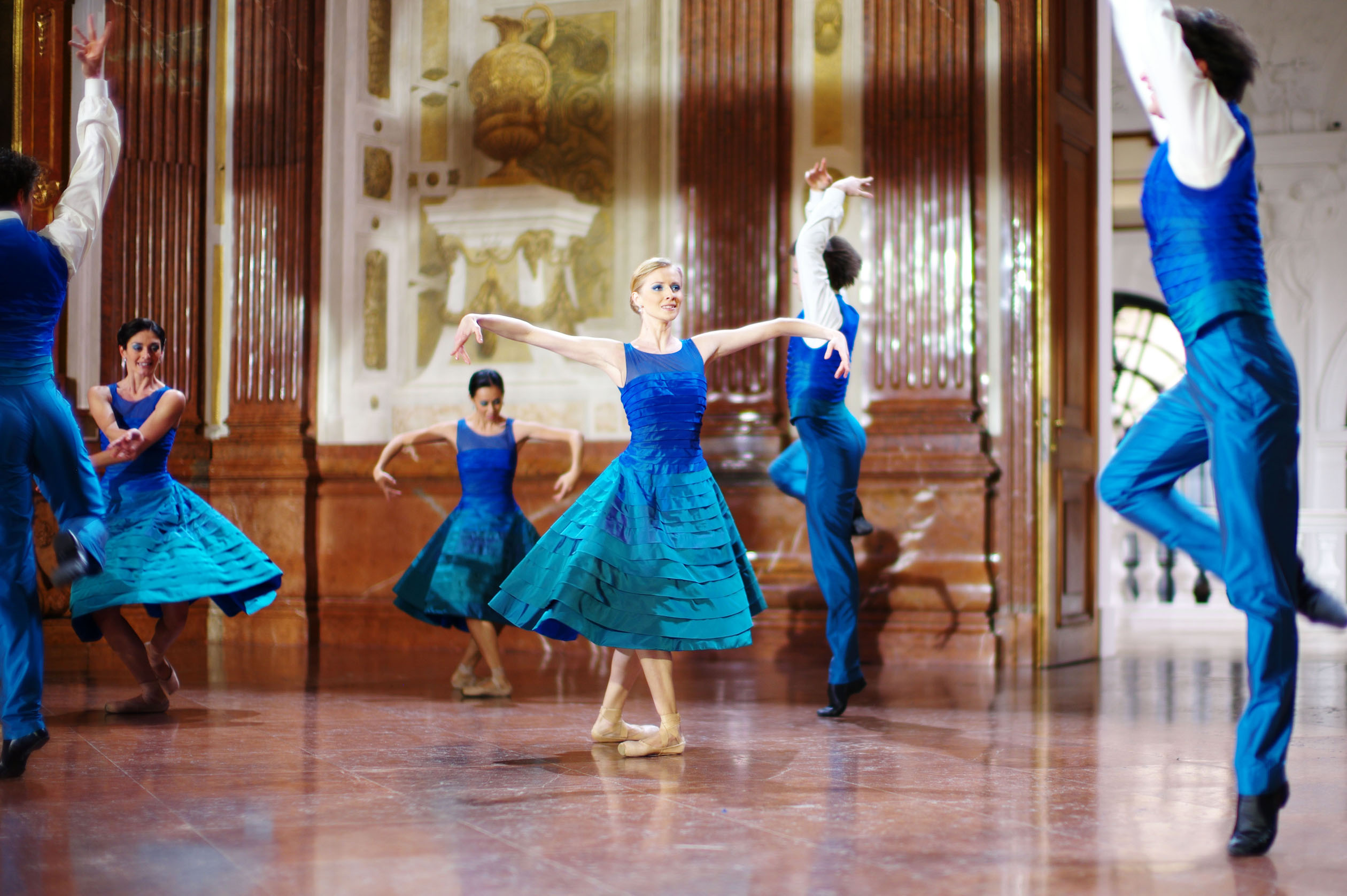 Vienna state ballet dancer Olga Esina and Roman Lazik and others perform during the the general rehearsal for the New Year´s Concert the ballet "Donauwalzer" in the Belvedere on January 1, 2012 in Vienna. f0.95